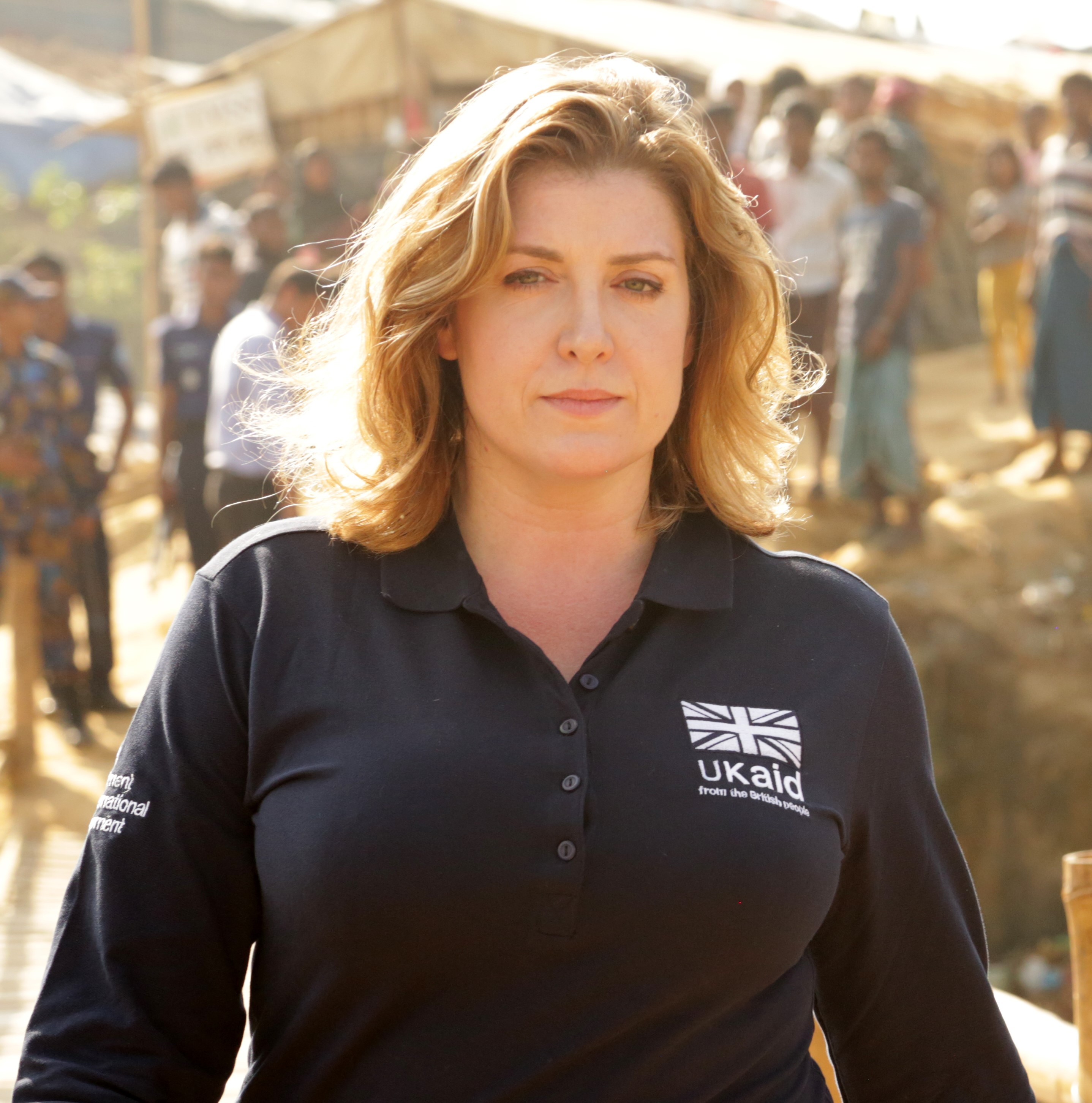 Penny Mordaunt MP, UK Secretary of State for International Development, pictured on a visit to the Kutupalong refugee camp near Cox's Bazar, Bangladesh, 25 November 2017.